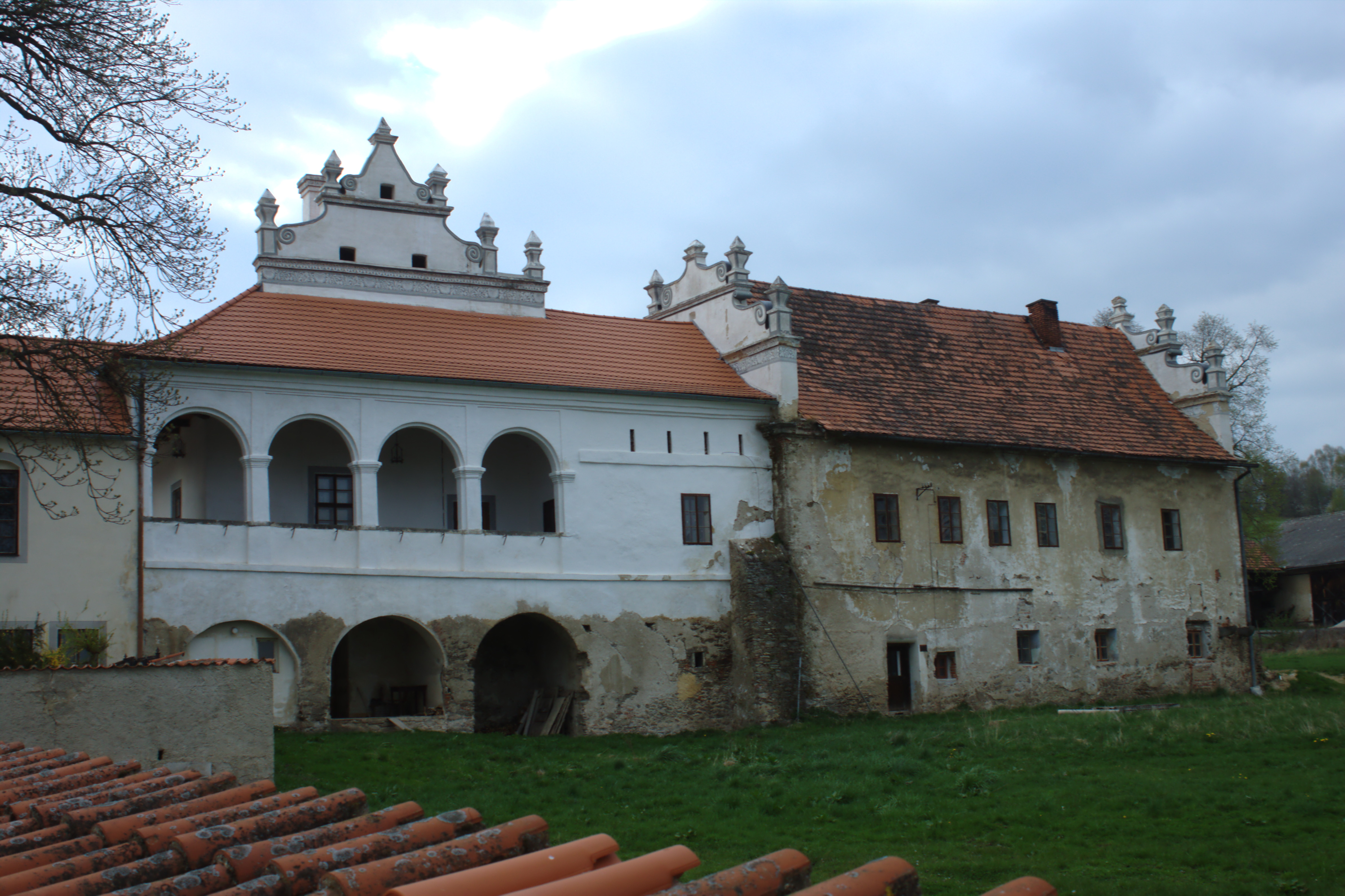 Mokrosuky Castle, Plzeň Region, CZ